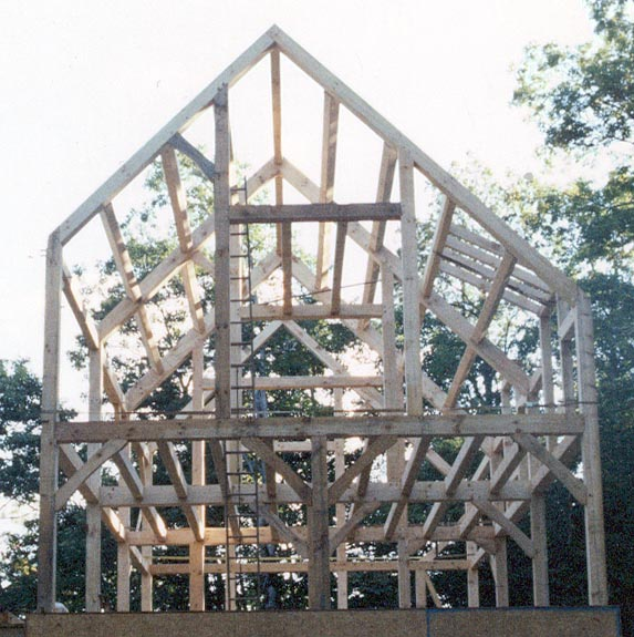 Photo of a completed timber framed structure designed and built by Goshen Timber Frames in North Carolina, USA.